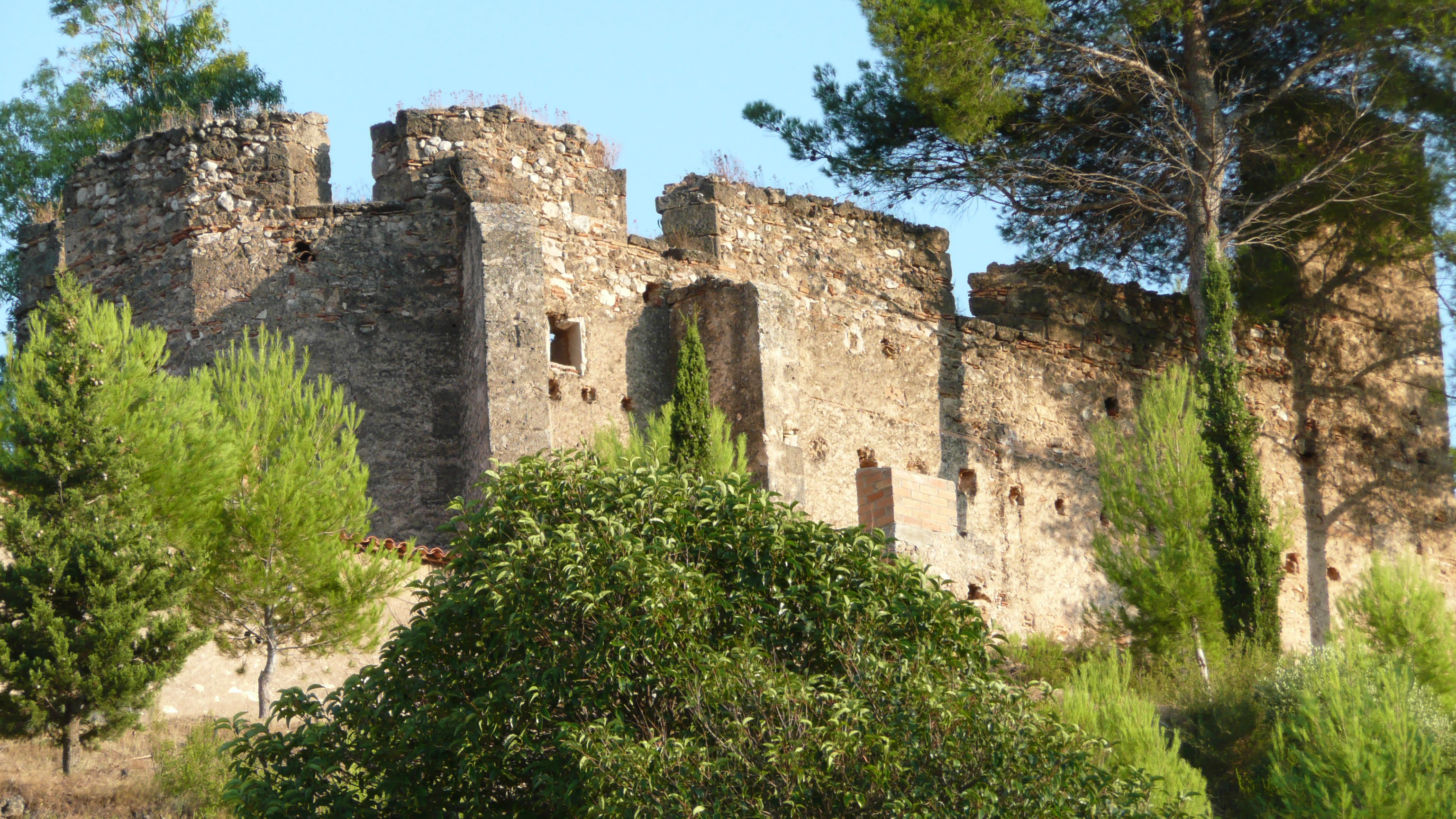 West front's fortification taken from the village. (Sant Quintí de Mediona)